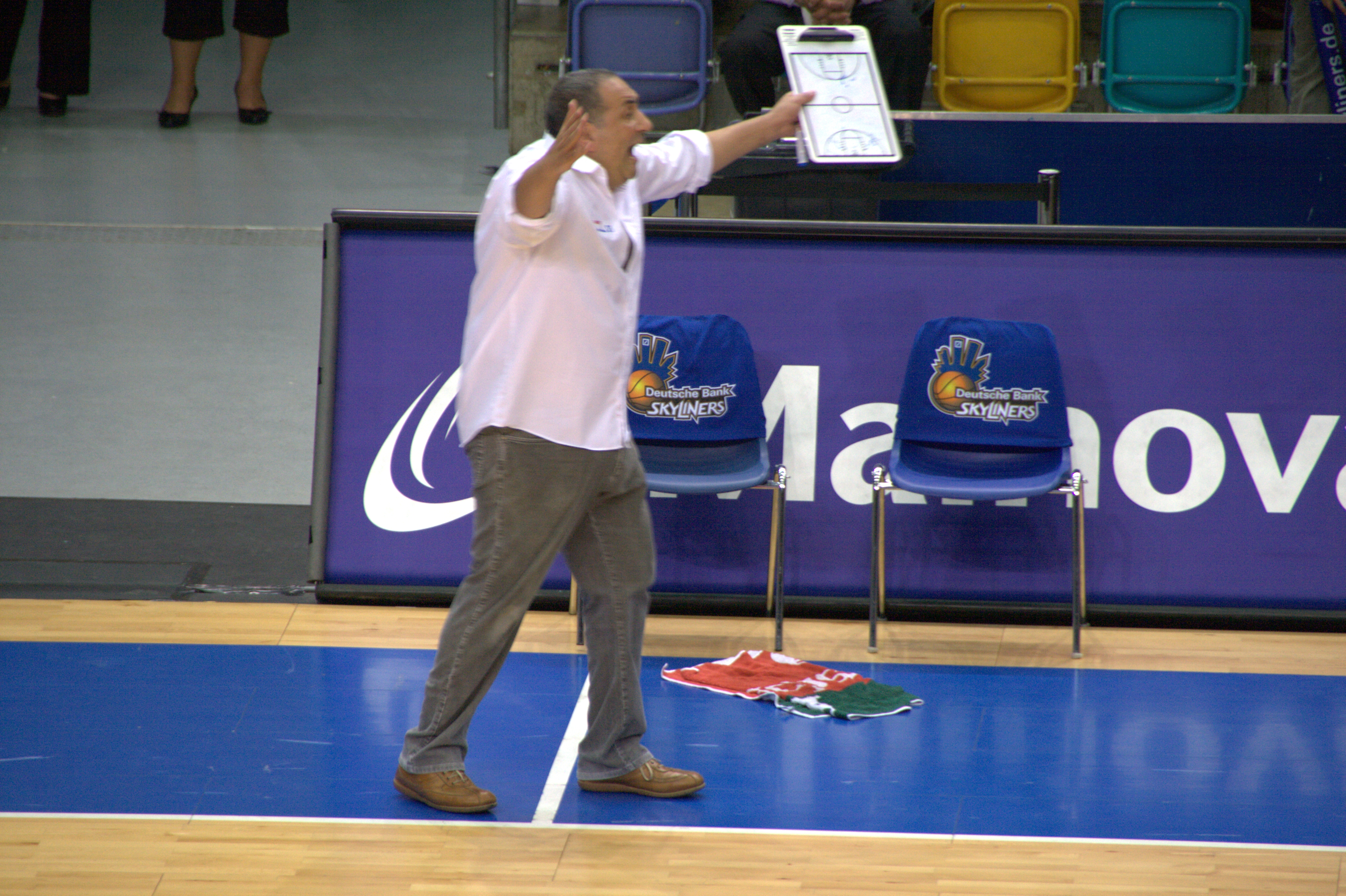 Frankfurt Skyliners' coach Murat Didin during a game against ALBA Berlin.